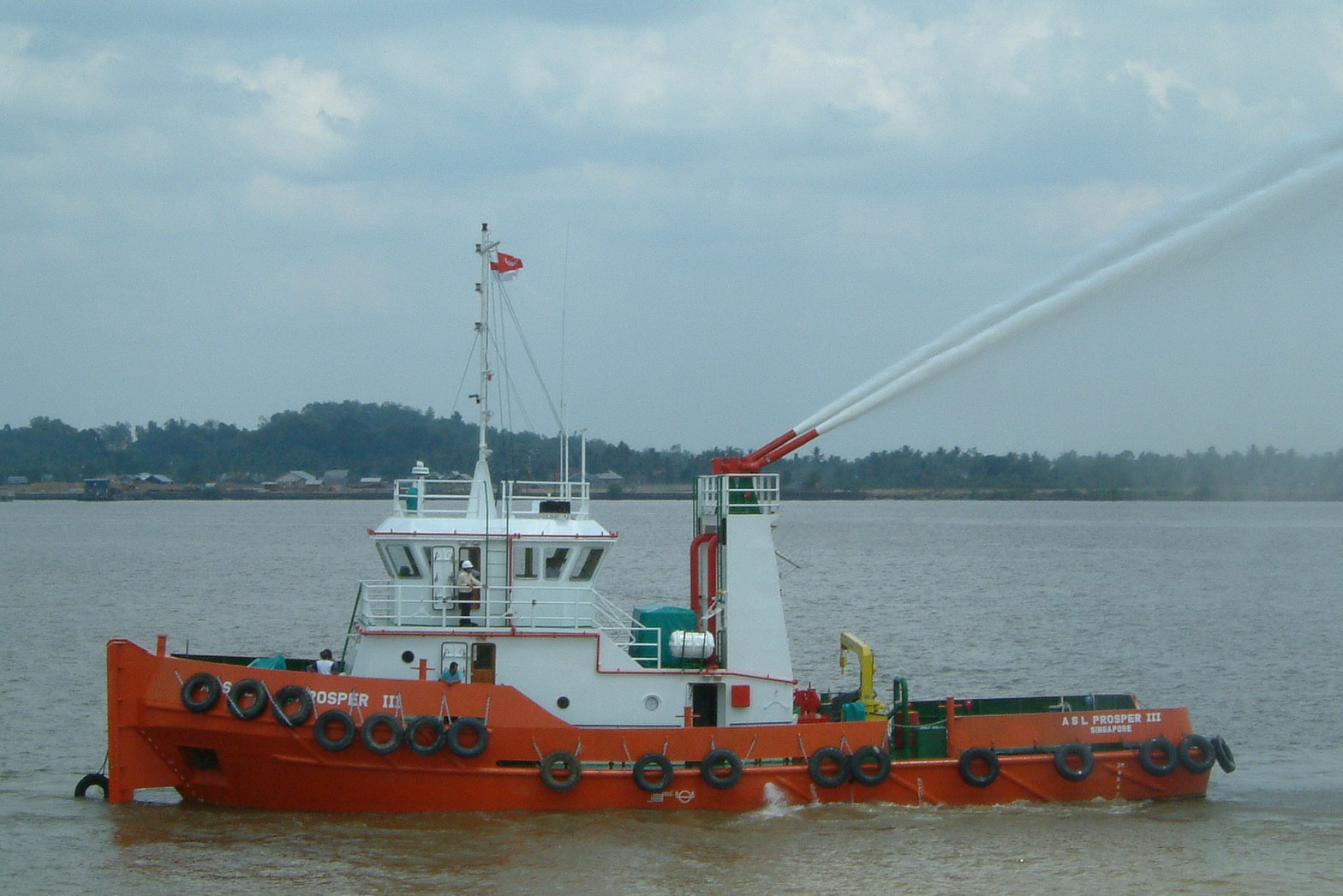 Indonesian tugboats ASL Prosper III IMO number: 9327918 Callsign: YD6681